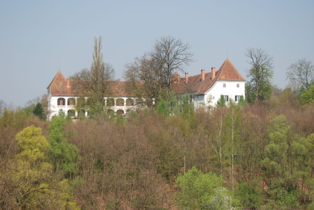 Welsdorf, Gemeinde Übersbach, Styria